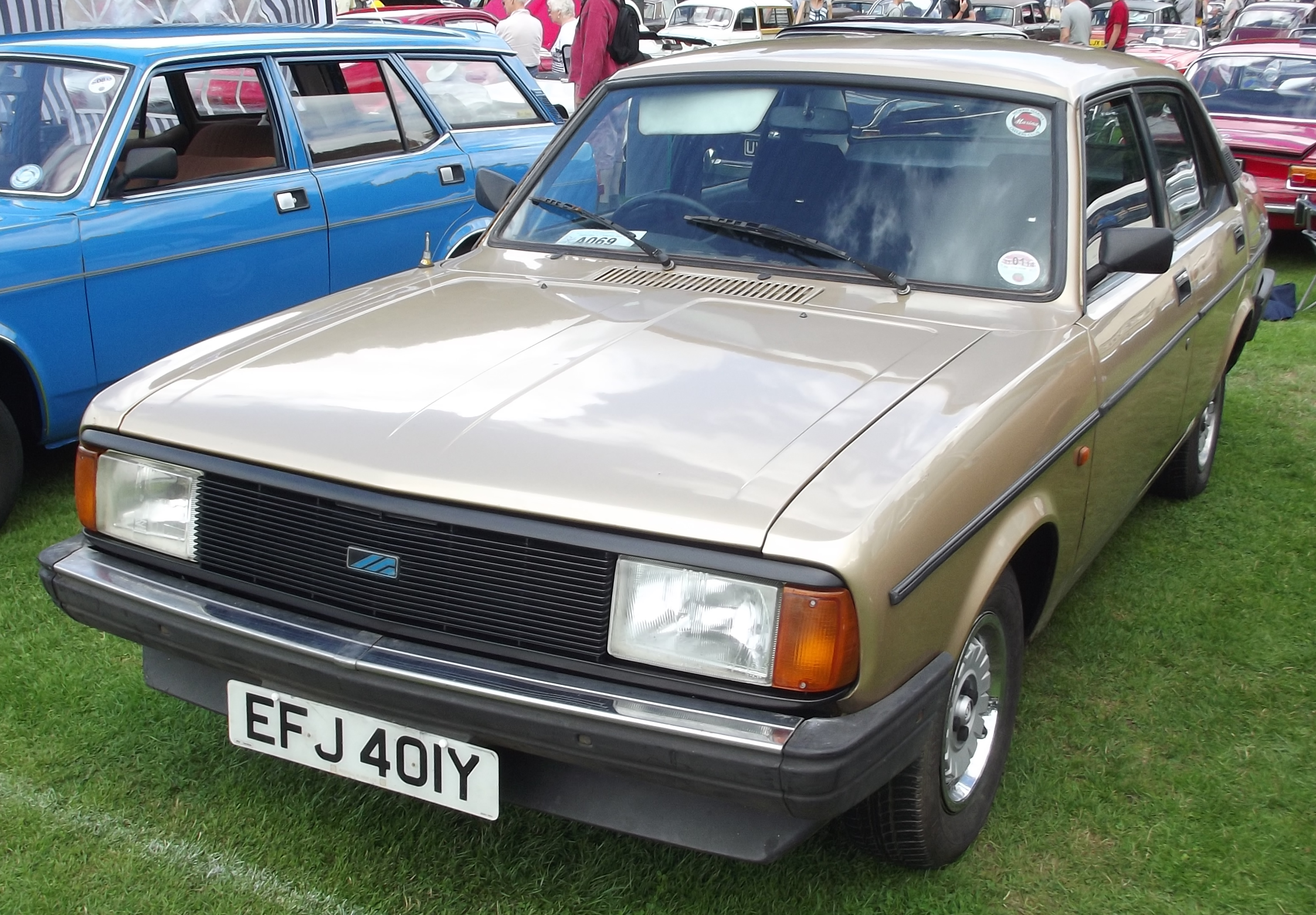 Stories and memories of any classic car in the photos your welcome to write them in the comment box )